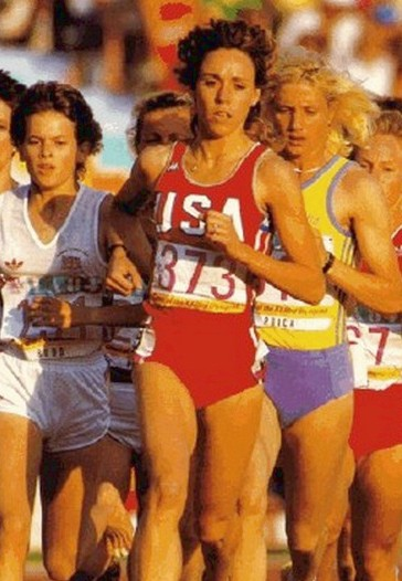 Mary Decker, Los Angeles 1984